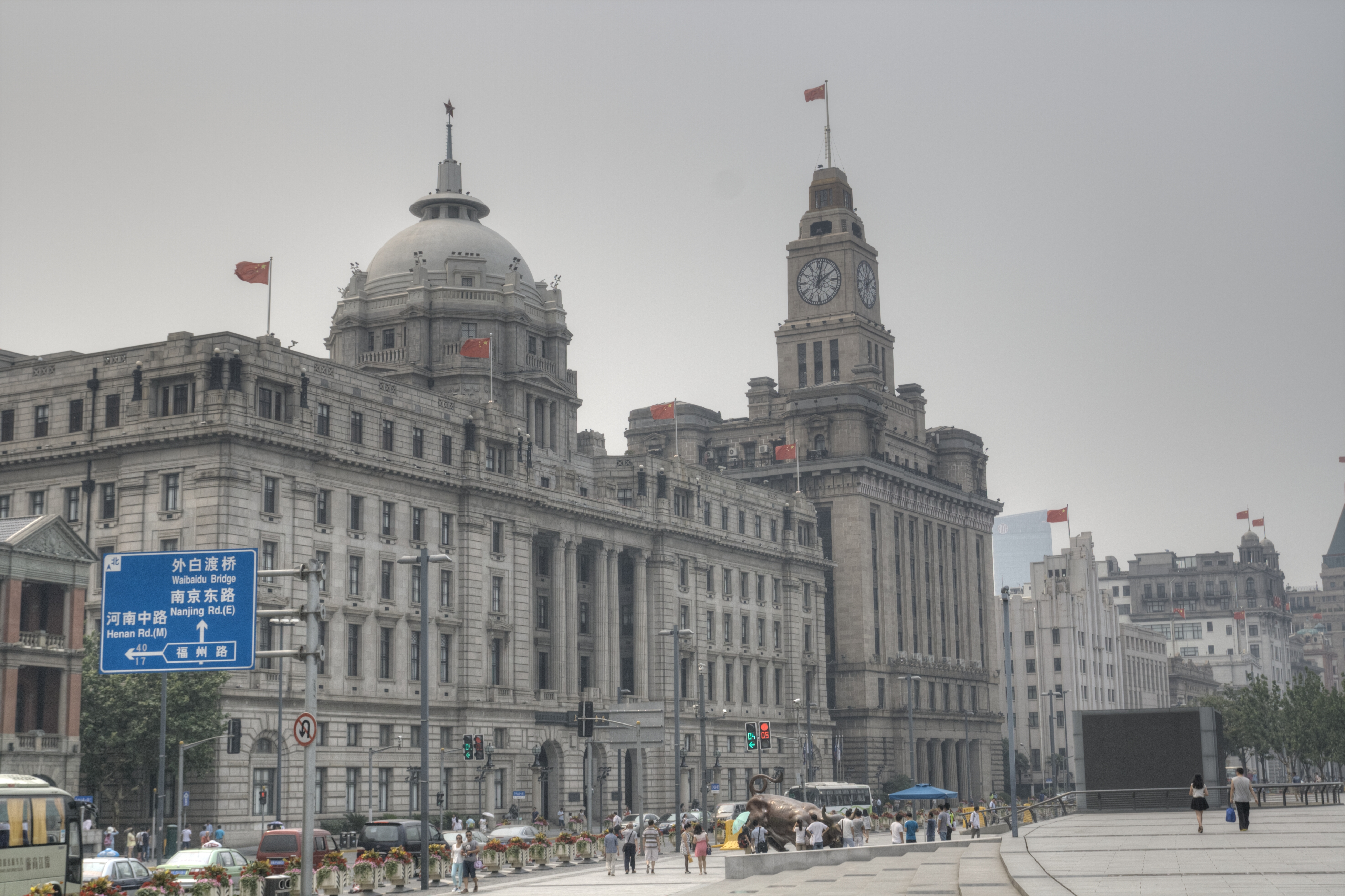 HSBC Building (front) and Customs House (back) on the Bund (Shanghai/China)